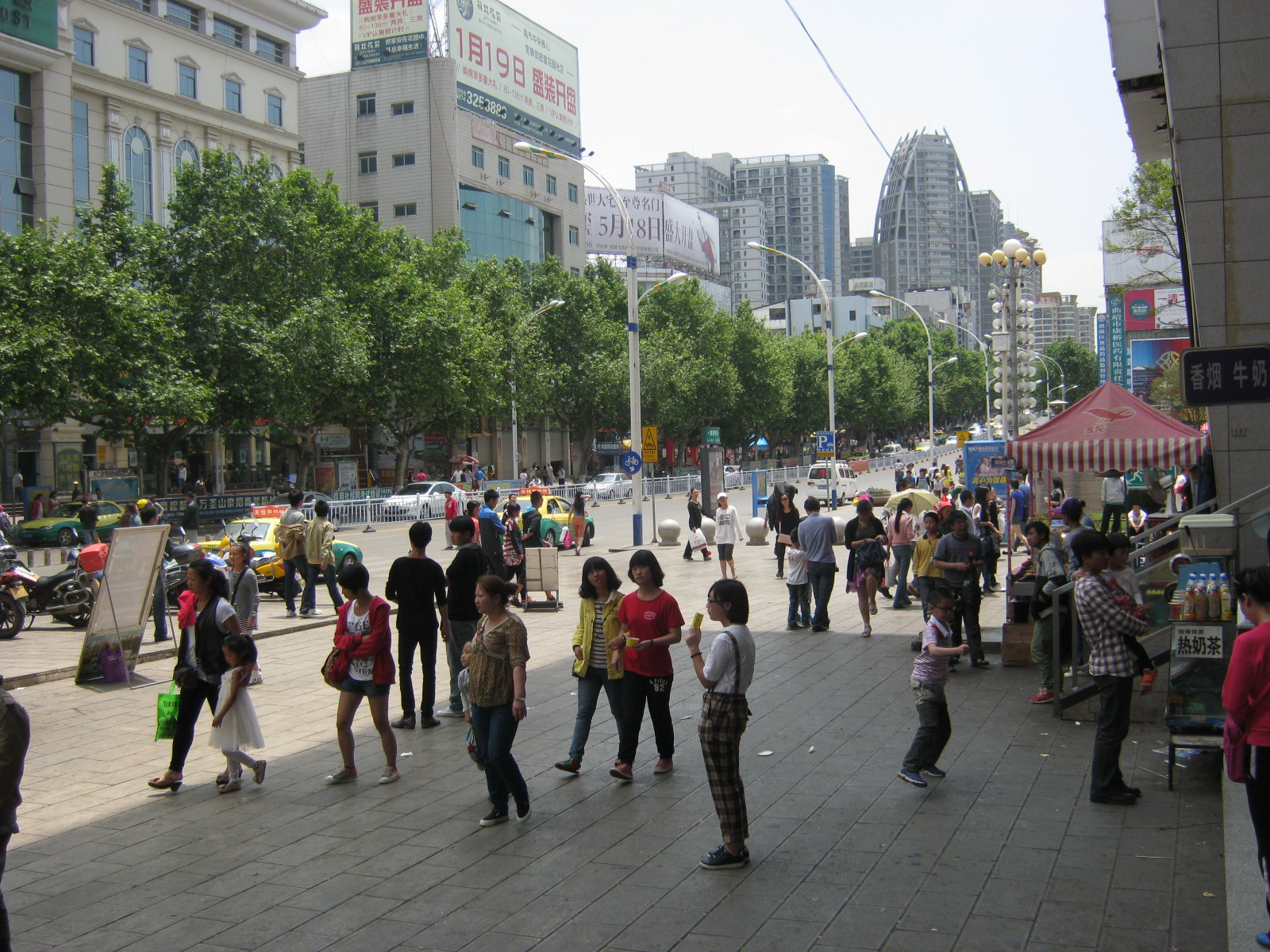 Qujing in 2013